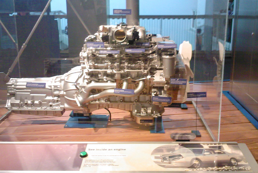 Lexus LS 400 V8 engine on display at the California Science Center in Los Angeles, California.